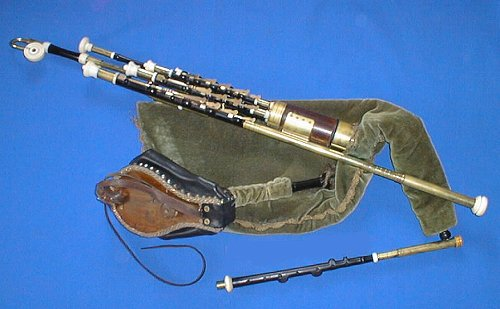 Irish Uilleann Pipes-Full Set